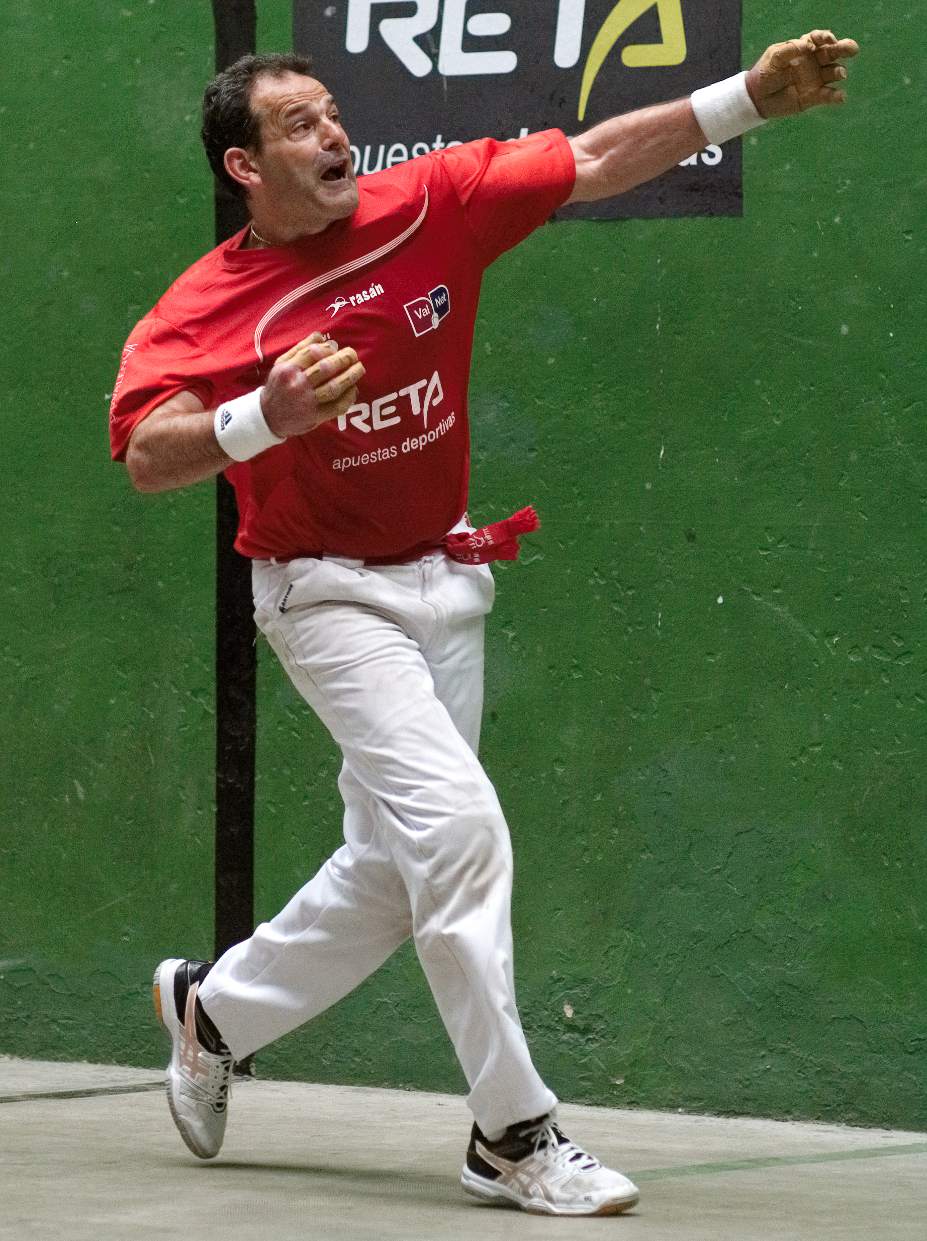 Riojan pilota player Titín III playing a match at Chest's fronton. Aragonés: o pelotaire riochán Titín III en o frontón de Chest (Valencia).